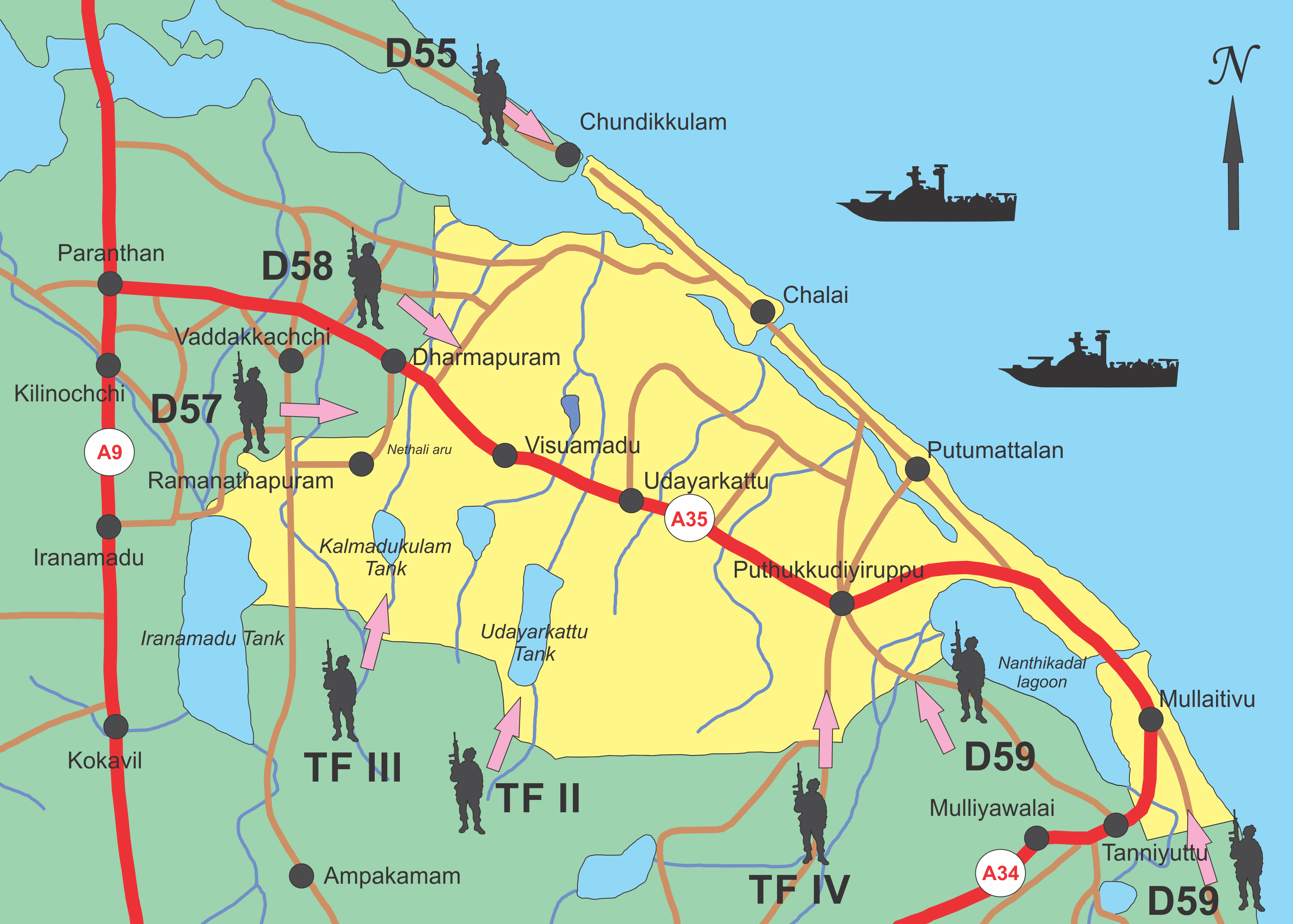 Map showing the situation in the Northern theater of Eelam war IV by 17th January 2009. It only indicates the Sri Lanka Army unit positions. Source: Based on "battle progress map" published by Defence Ministry of Sri Lanka and the Wanni operation map appeared on "The Nation" news paper on 18 January 2009.